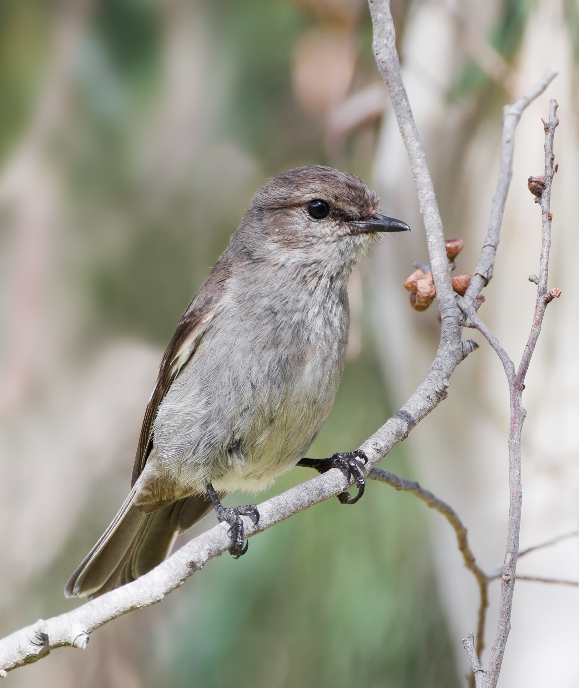 Dusky Robin (Melanodryas vittata), Bruny Island, Tasmania, Australia